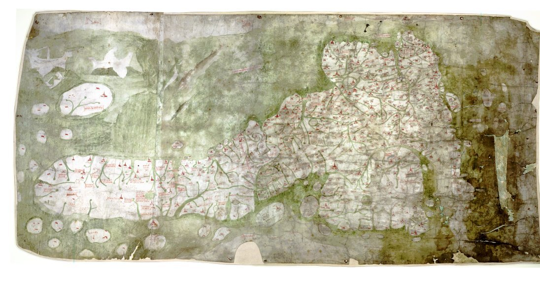 The Gough Map or Bodleian Map is a road map of Great Britain, dating from around 1360. The Gough Map is the oldest extant map of the roads of medieval Britain. It is about 115 x 56cm large and was made around 1360. It is named after Richard Gough, who donated the map to the Bodleian Library in 1809. East is on the top.